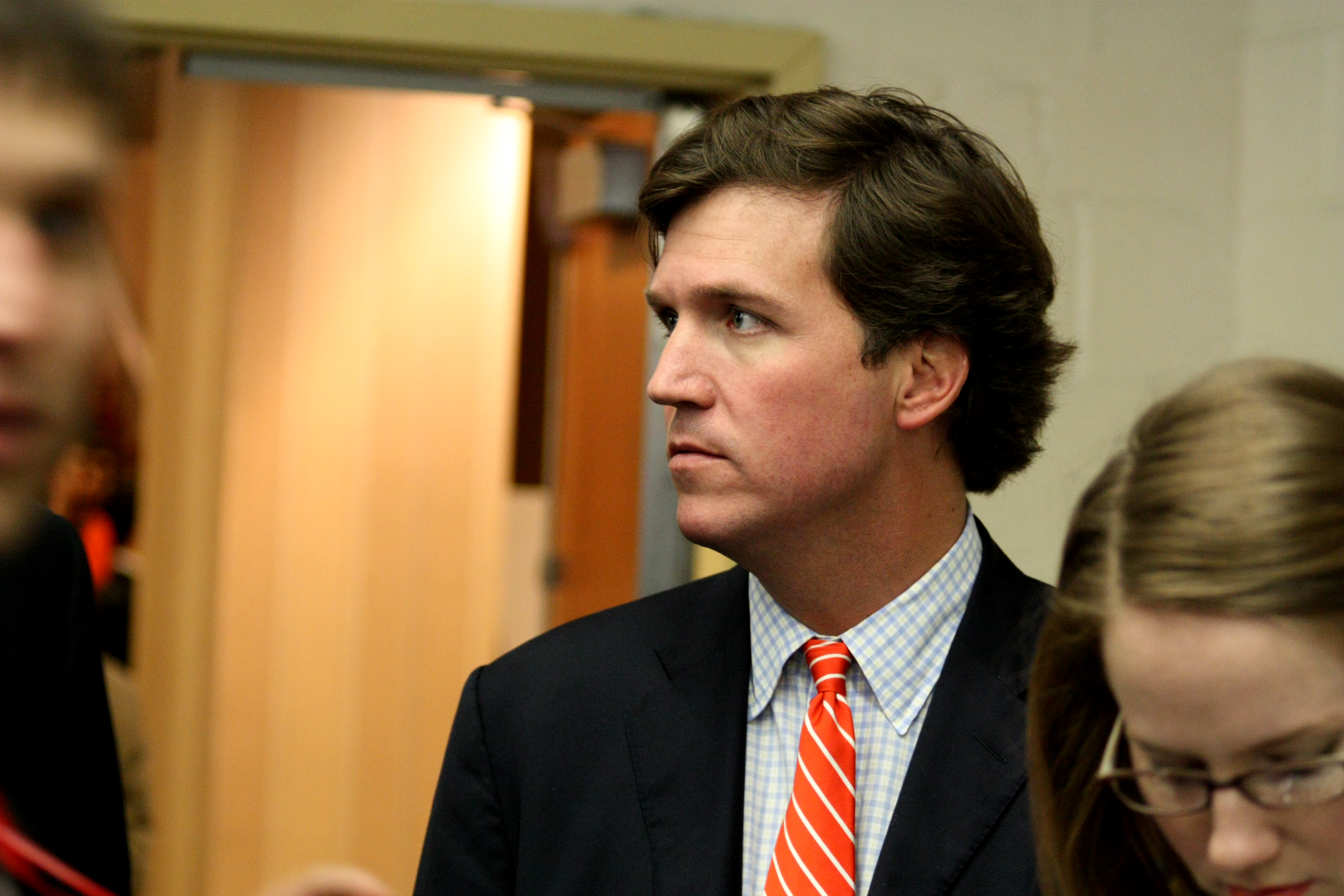 Television commentator and personality Tucker Carlson on the Exhibit Floor at CPAC.